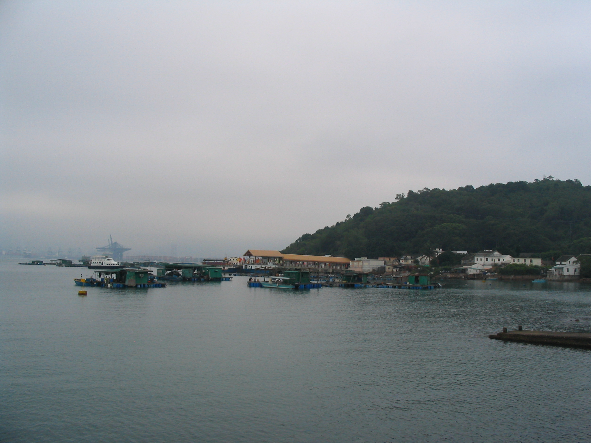 Kat O Island in Tai Po district, New Territories, Hong Kong.